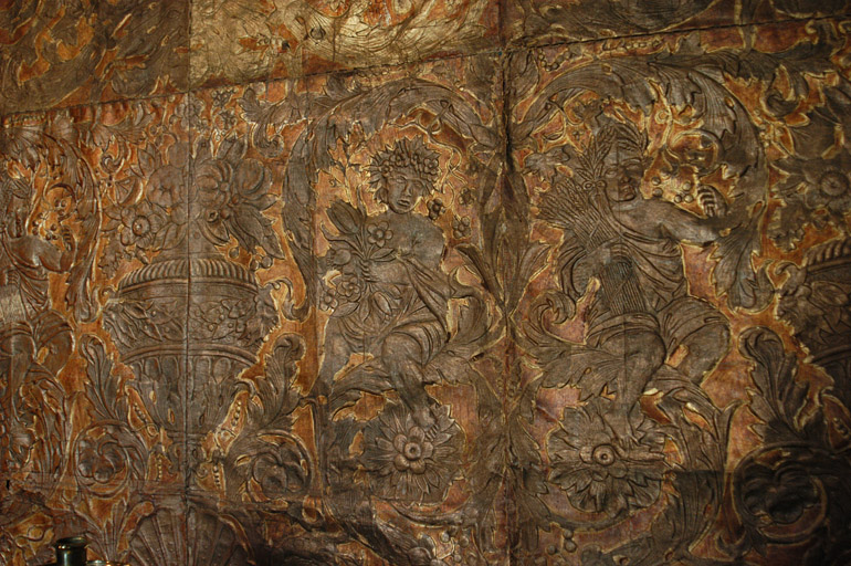 Cuir de Cordoue/Cordwain wall panels from Chateau d Vauvenargues, now in Chateau de La Barben